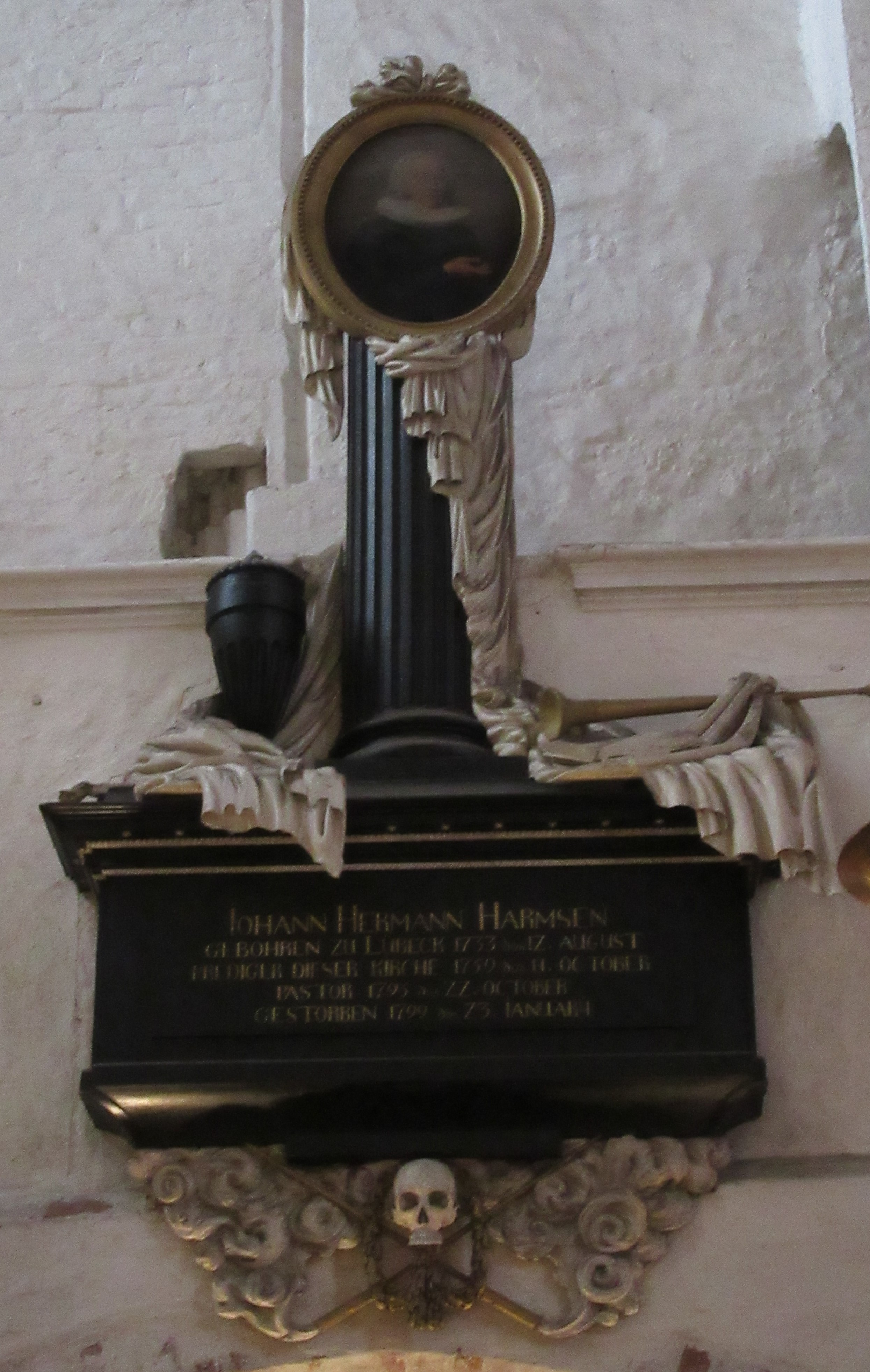 Epitaph of Pastor Johann Hermann Harmsen (1733-1799) in St. Marien Lübeck; portrait painted by Friedrich Carl Gröger (1766–1838) DescriptionGerman portrait painter and lithographerDate of birth/death14 October 17669 November 1838Location of birth/deathPlönHamburgWork locationNorthern Germany and DenmarkAuthority control VIAF: 7658359 ISNI: 0000 0000 8039 8434 ULAN: 500002933 LCCN: no2005103749 GND: 118697943 WorldCat